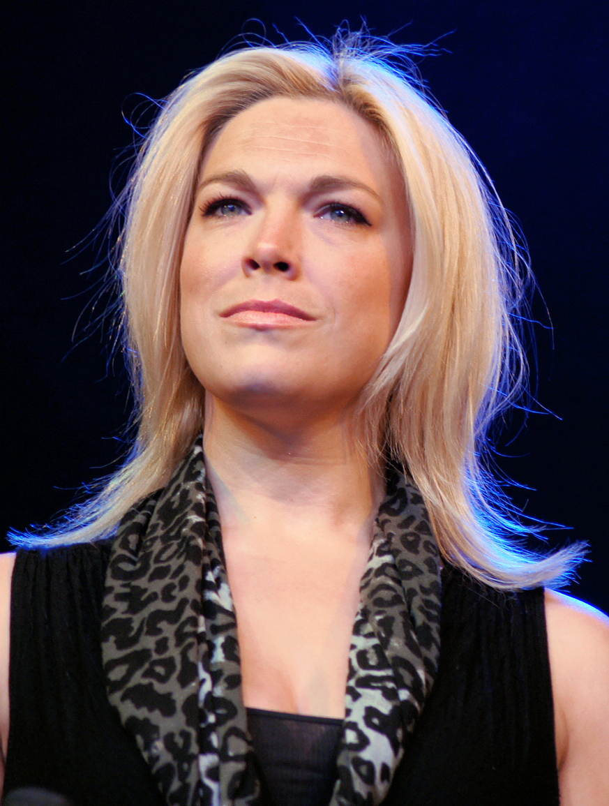 Hannah Waddingham - Into The Woods